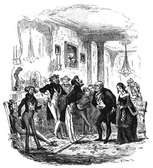 Illustration for Nicholas Nickleby by Hablot Browne